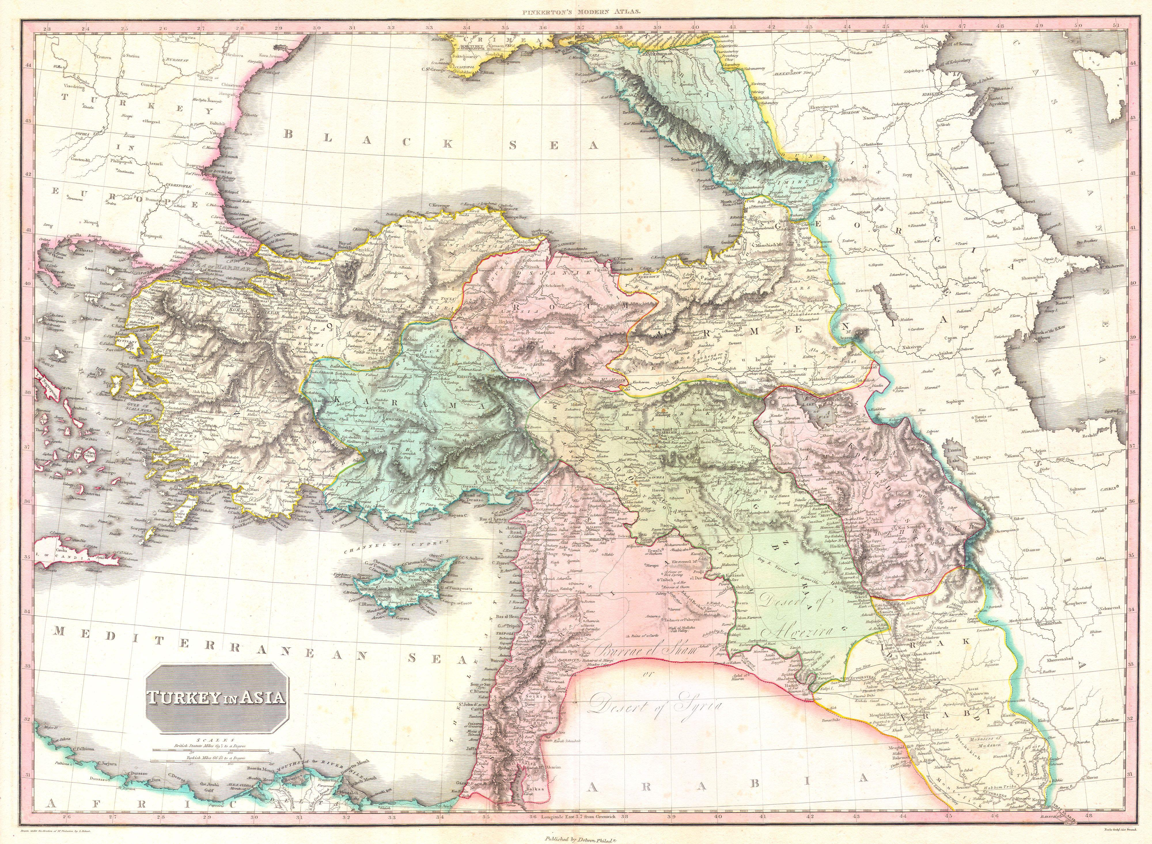 This is John Pinkerton's stunning 1818 map of Turkey in Asia. Covers the holdings of the early 19th century Ottoman Empire in Asia, inclusive of modern day Turkey, Iraq, Cyprus, Syria, Jordan, Israel, Palestine, Lebanon, Georgia, Armenia, and Azerbaijan. Area of coverage extends from the Aegean Sea to the Caspian Sea and from the mouth of the Nile and the Dead Sea to the Crimea and the Black Sea. This beautifully rendered map is truly a masterpiece of engraving, with mountain ranges, lakes, deserts, and rivers excited with such precision that the result appears almost three dimensional. Pinkerton injects astounding detail throughout with countless towns, cities, geographical features, rivers, islands and bodies of water noted. Names numerous important sites are named, these include Mt. Ararat, the historic ruined Armenian capital of Ani, the ruined ancient Roman city of Palmyra, the ruins of several castles, etc. Drawn by L. Herbert and engraved by Samuel Neele under the direction of John Pinkerton. This map was issued in the scarce American edition of Pinkerton’s Modern Atlas, published by Thomas Dobson & Co. of Philadelphia in 1818.